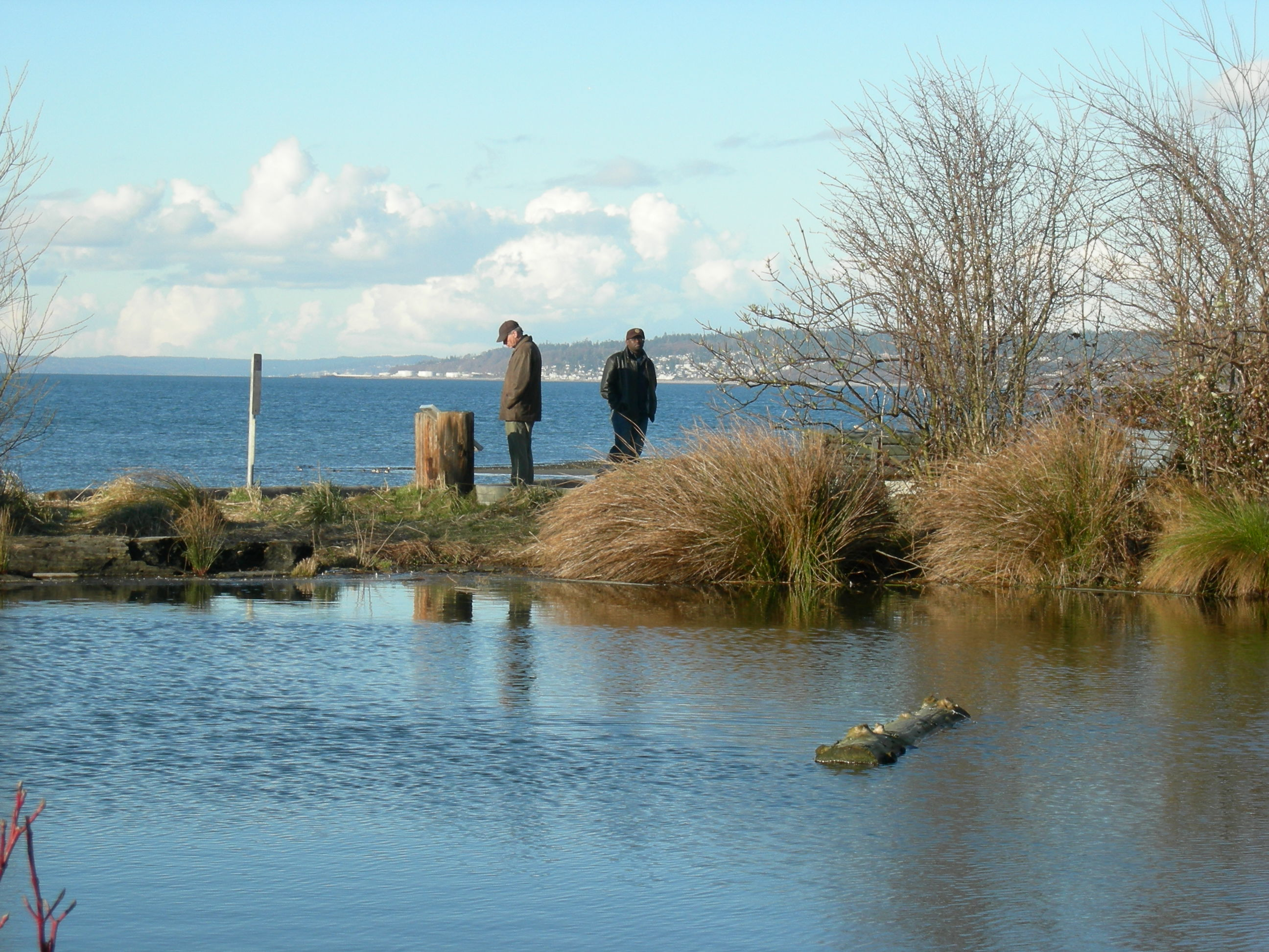 A narrow strip of land separates a marsh lake from the salt water of Shilshole Bay; Golden Gardens Park, Ballard, Seattle, Washington.